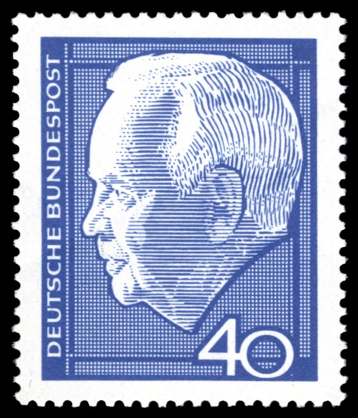 Stamp description / Briefmarkenbeschreibung Re-election of president Heinrich Lübke